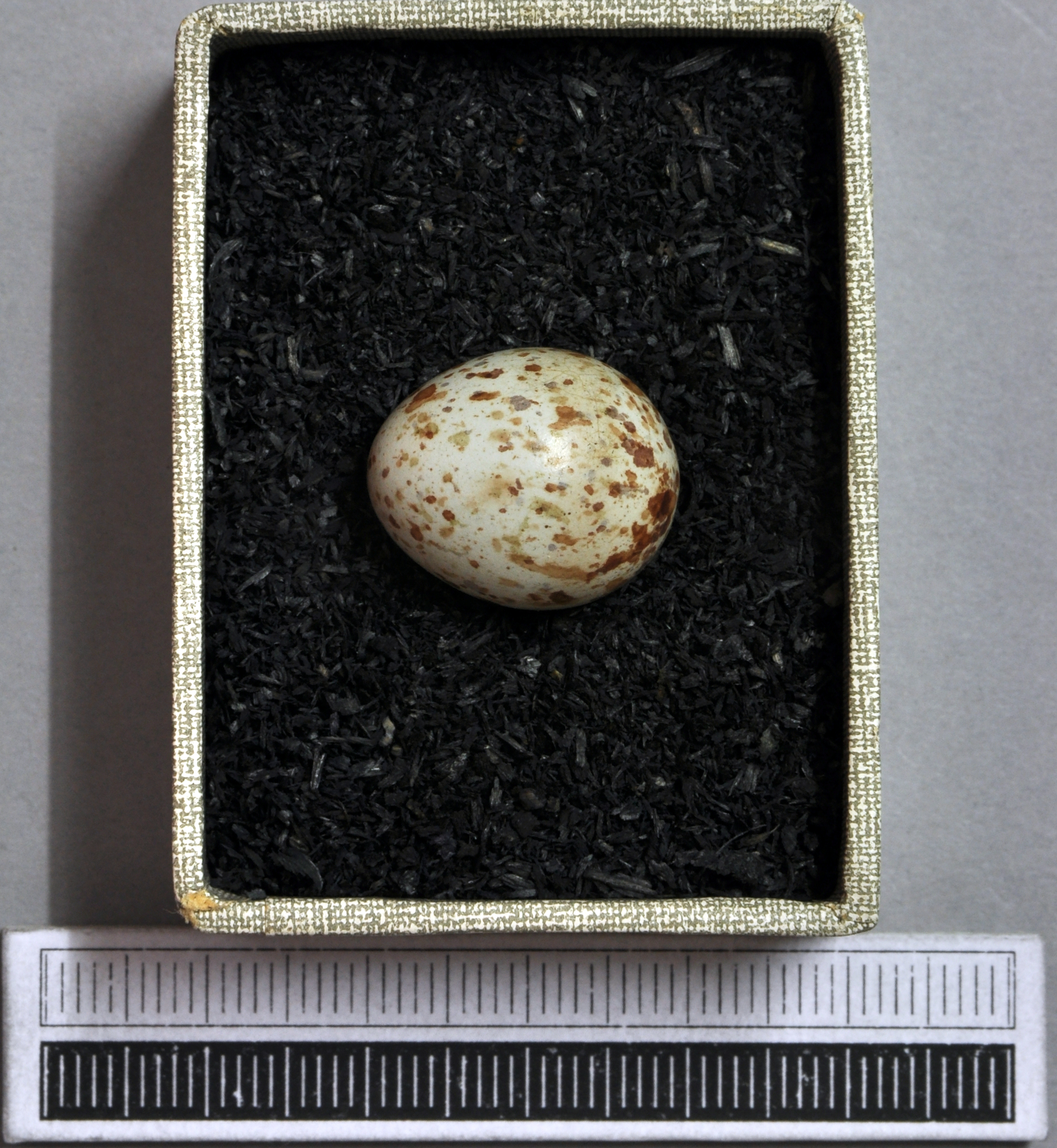 Oriental magpie-robin Copsychus saularis , egg, Coll. Museum Wiesbaden